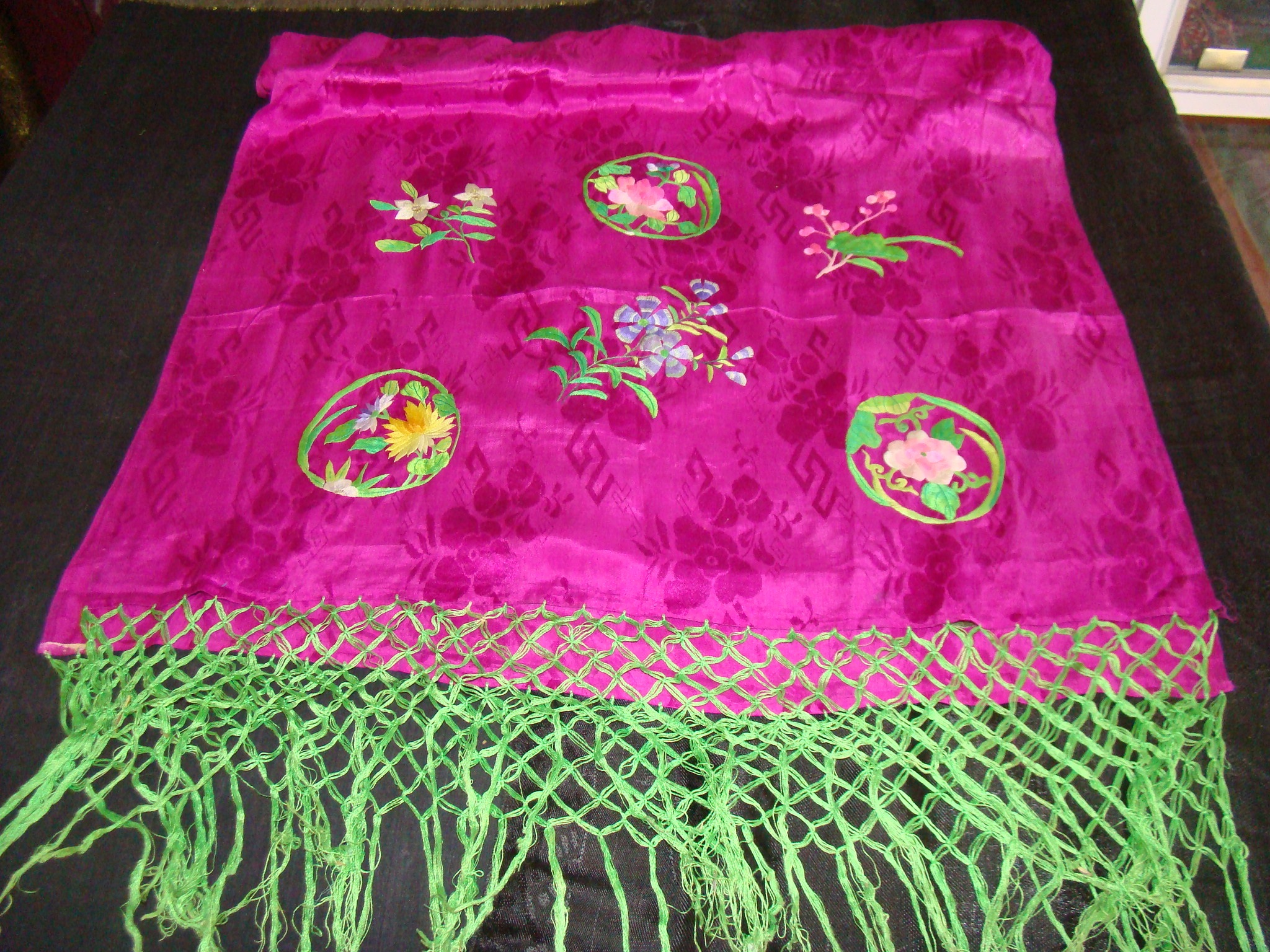 Embroided Silk from Khotan 17th century